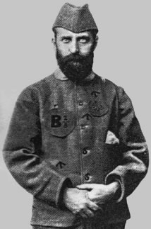 W. T. Stead in his convict uniform, on the annivesary of his incarceration for the Maiden Tribute to Modern Babylon